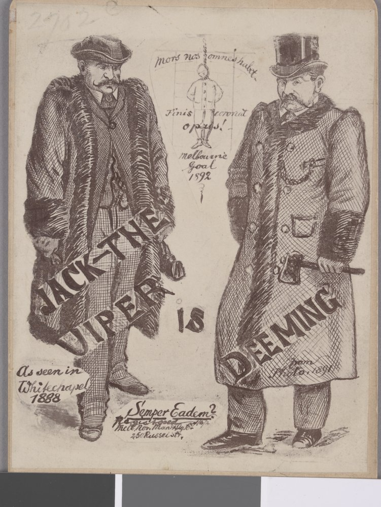 Photograph of two sketches of Frederick Deeming, portraying him as "Jack the Viper." He wears a long coat with fur trim and a top hat. Text at lower edge of image reads: "As seen in Whitechapel 1888" and "Jack-the Viper is Deeming from photo 1891." A number of latin phrases have been included: "Mors nos omnes habet" (Death gets us all); "Finis coronat opus" (The end crowns the work, i.e., the murderer is hanged for his crimes); "Semper eadem" (Always the same, i.e., Deeming is the same man as Jack the 'Viper'/Ripper). Learn more about this image, or download a hi-res copy, by checking out our catalogue: .au/10381/54368